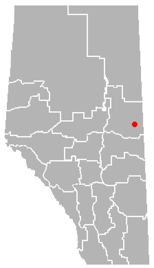 Location of Mallaig, Alberta